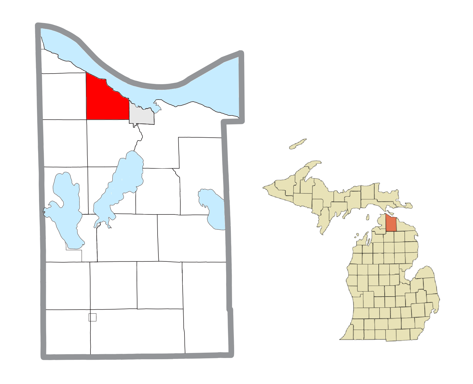 Beaugrand Township, MI